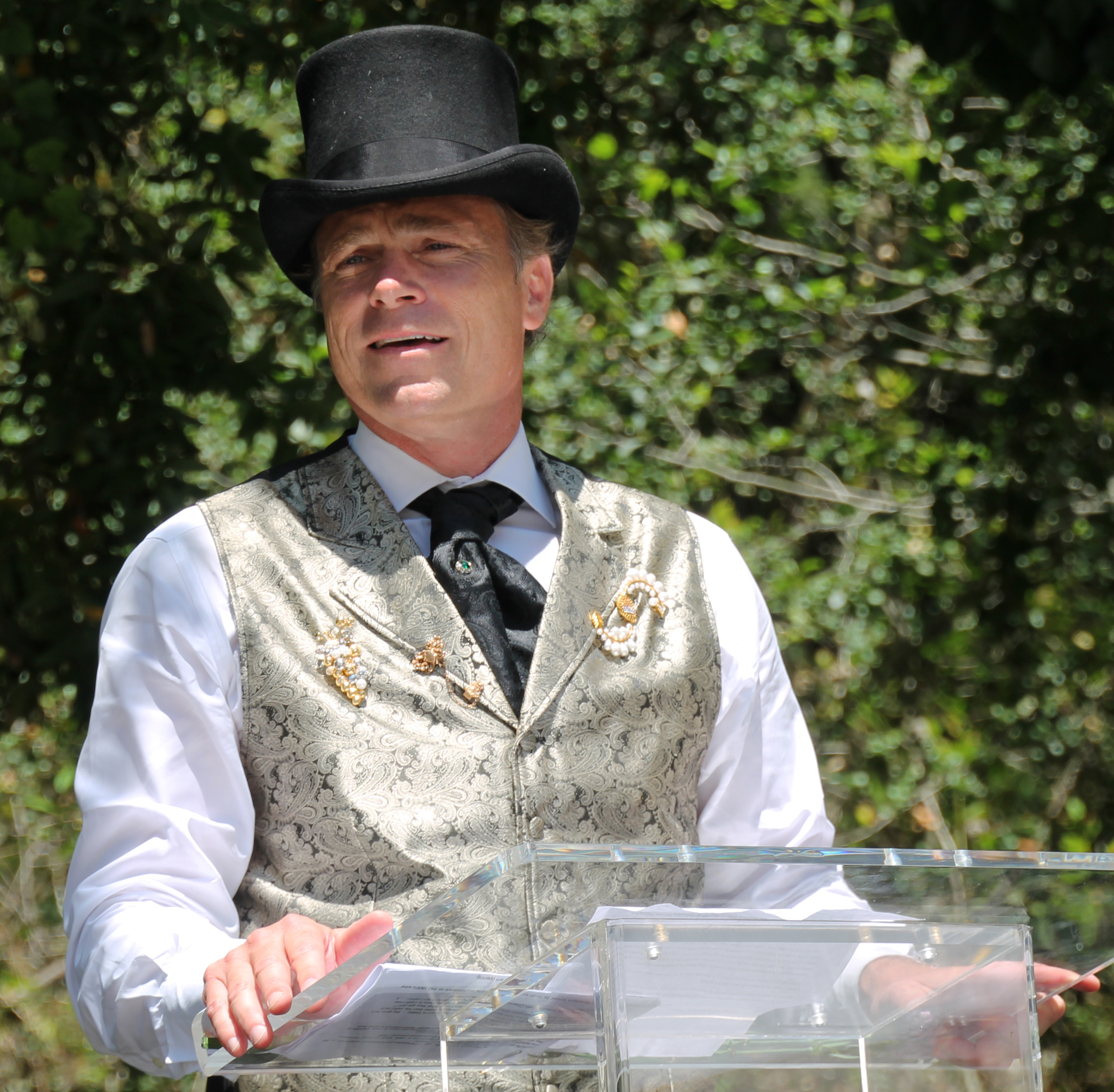 Jean-Charles Boisset, Living History Extravaganza at Buena Vista Winery, Sonoma, California, 2015.